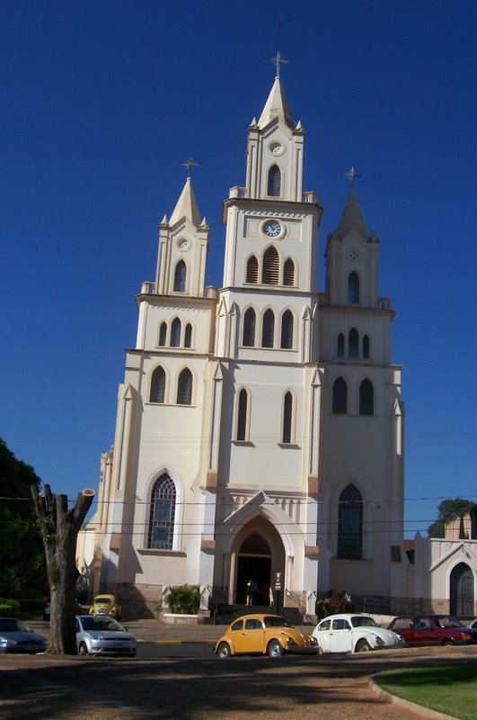 lins